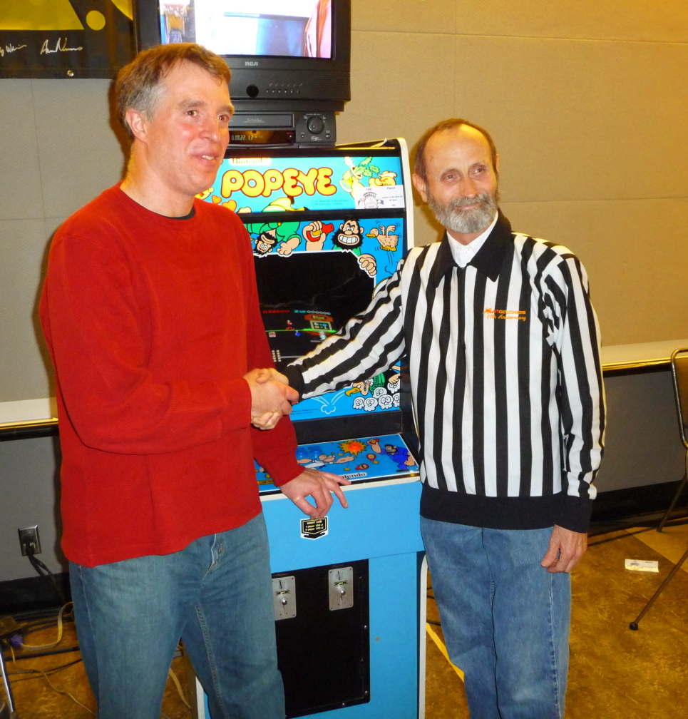 Photo of Perry Rodgers with Walter Day of Twin Galaxies at the 2010 Northwest Pinball & Gameroom Show right after Rodgers set a new world record score of 1,238,110 on Popeye.